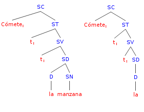 Clitic DO pronoun and articles according to DP-hypothesis